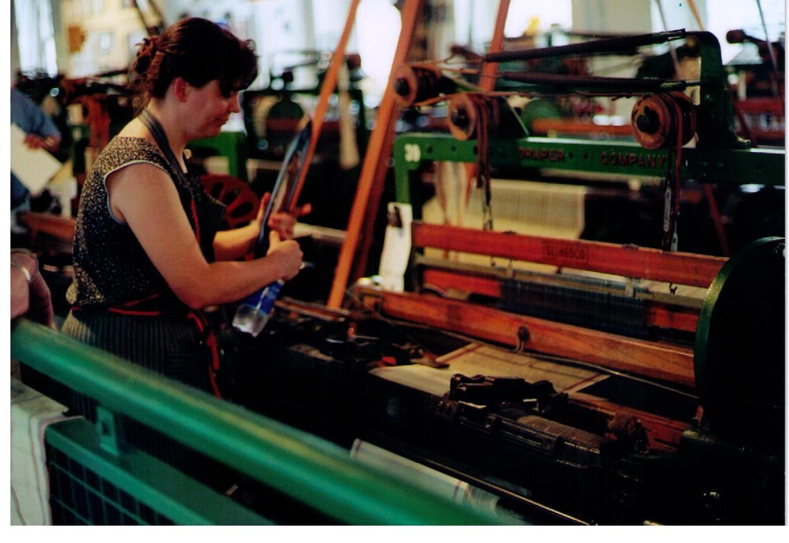 Demonstration how to work with power looms (The American Textile Museum in Lowell, Mass., USA)